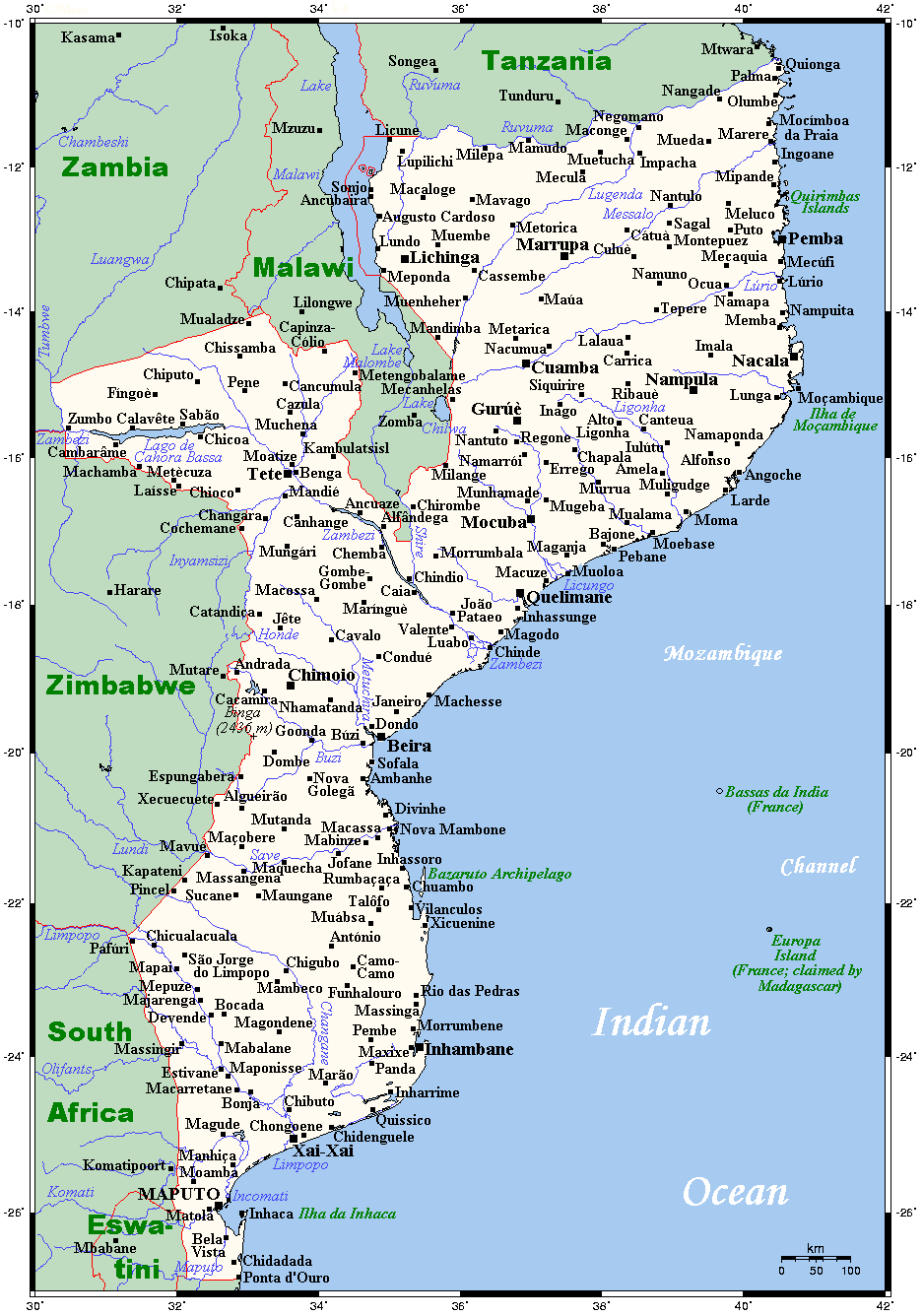 A map showing Mozambique's cities, main towns, selected villages, rivers and its highest peak.